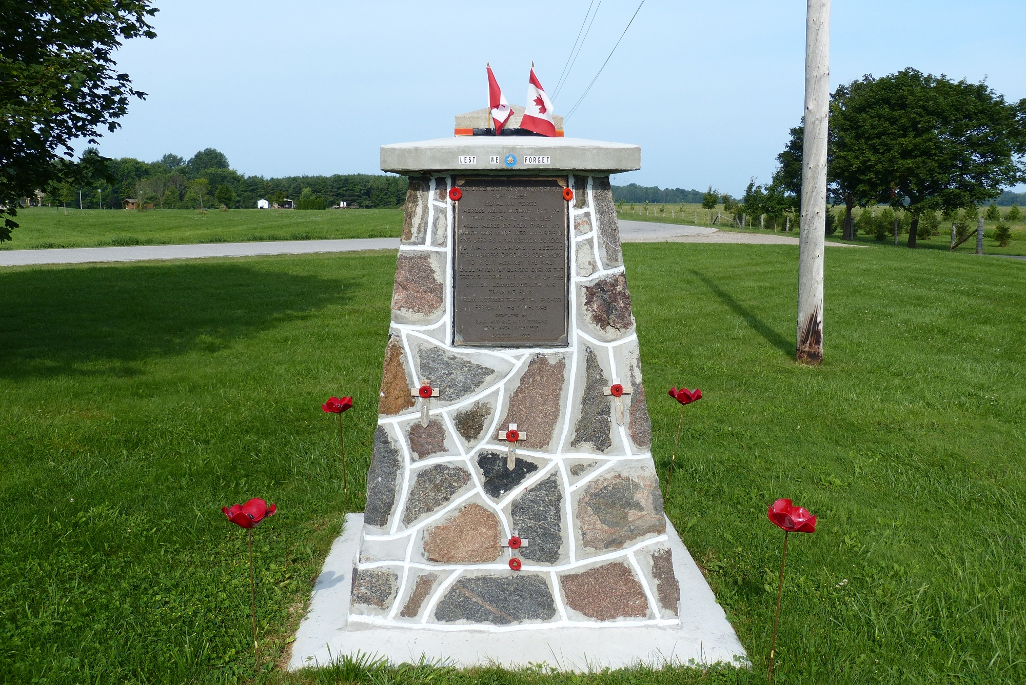 This cairn on Highway 21 near Port Albert, Ontario, Canada marks the location of Royal Air Force No. 31 Air Navigation School, which operated during World War II between November 18, 1940 and February 17, 1945. No. 31 ANS was a unit of the British Commonwealth Air Training Plan.